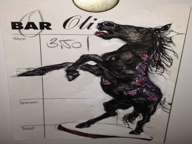 Knight out of the serial "Put knight on E6", watercolour on check, 15 cm x 10 cm, 2012